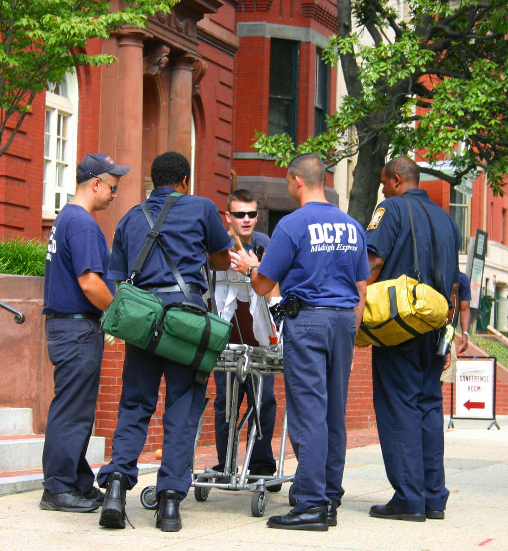 Paramedics and Emergency Medical Technicians (EMTs) belonging to the District of Columbia Fire and Emergency Medical Services Department (DCFEMS, also known as DCFD) converse after attending to a patient at St. Matthew's Roman Catholic Church in Washington, D.C., in the United States.